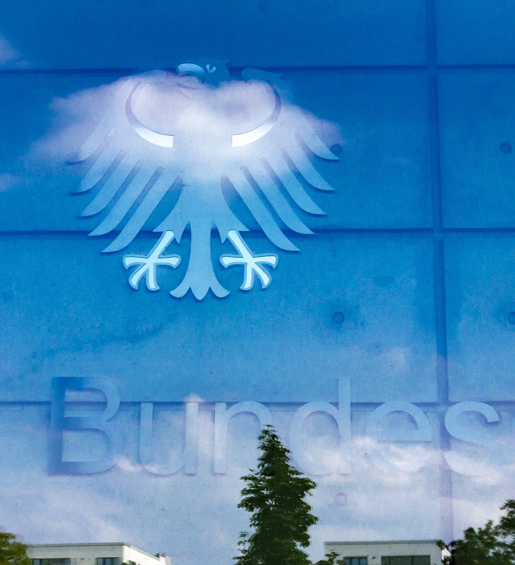 Headquarters of the Federal Intelligence Service of the Federal Intelligence Service in Berlin.